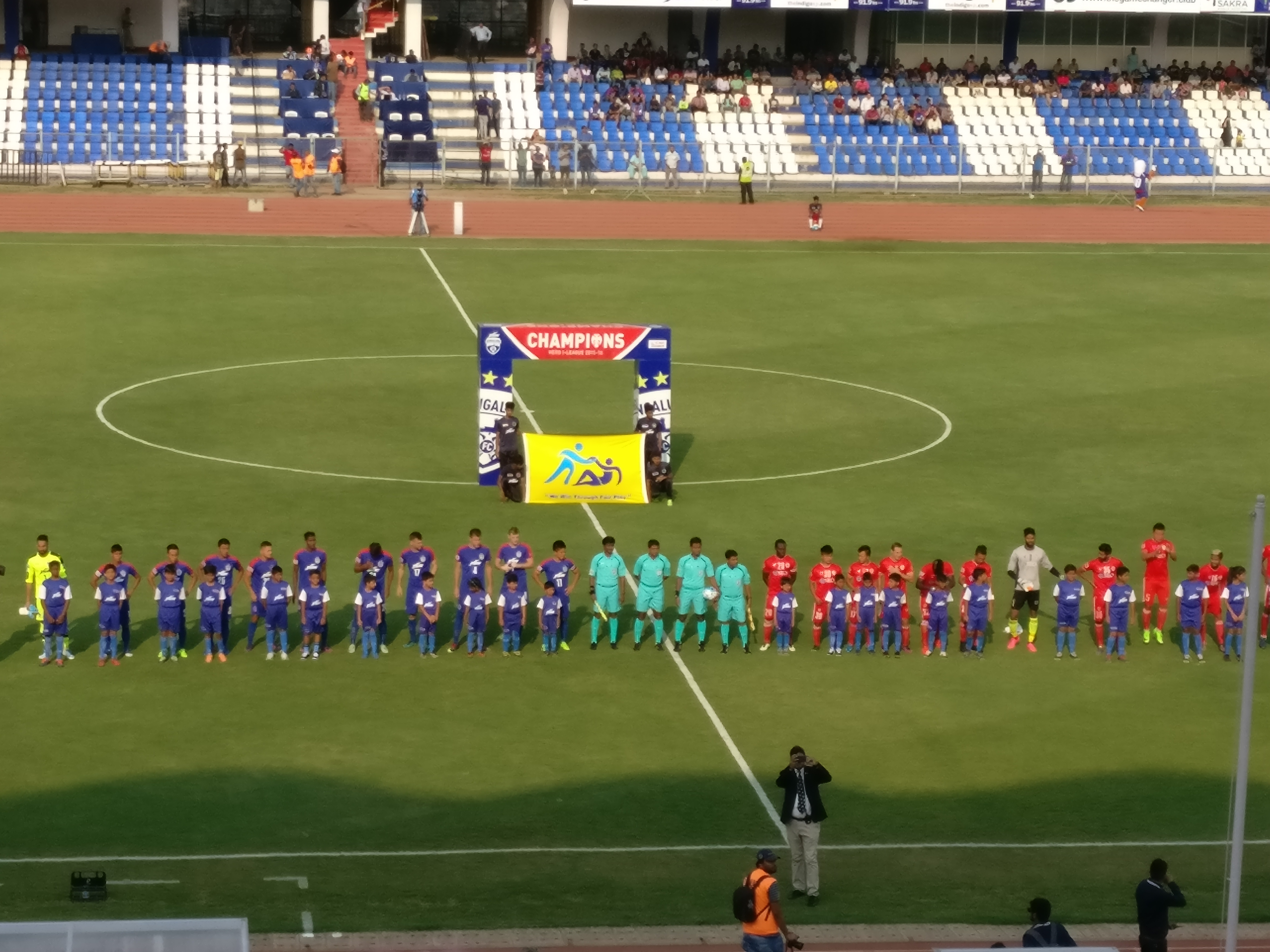 Bengaluru FC vs Aizawl before the kick-off at Sree Kanteerava Stadium on 9 April 2017